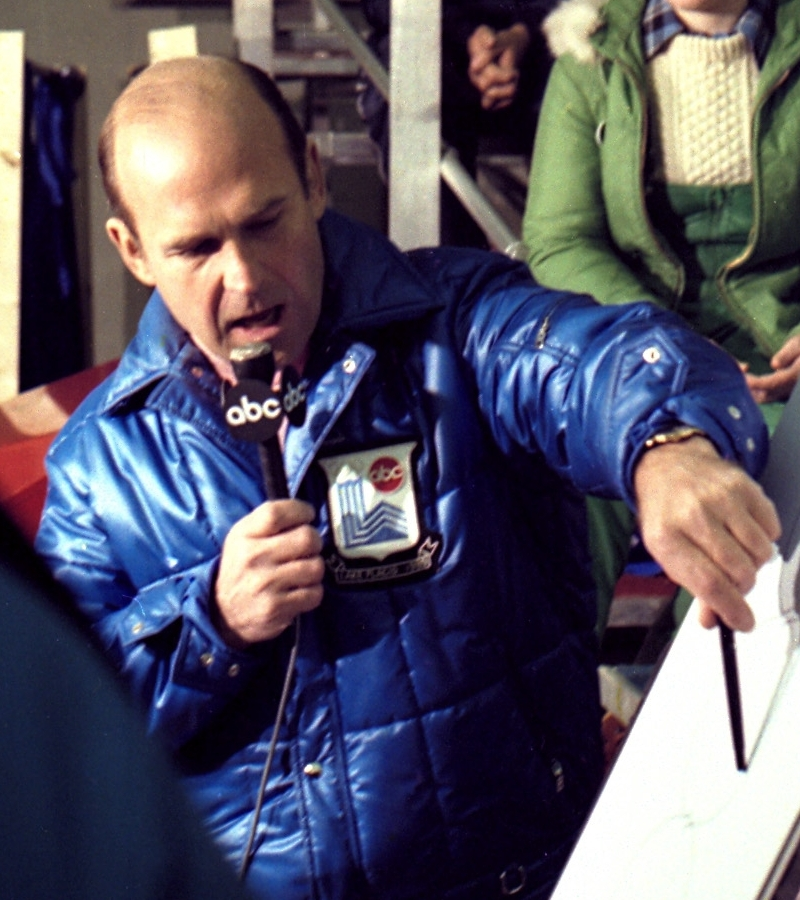 Dick Button describes the figure being skated for the TV audience.